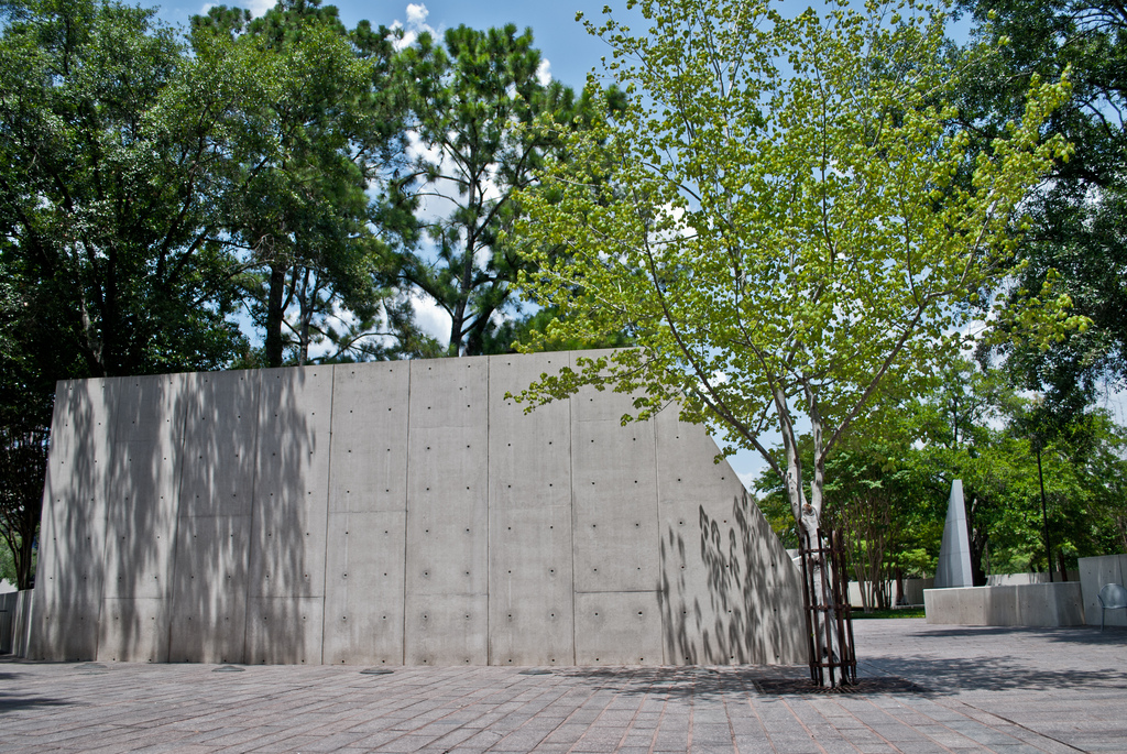 A glance at the Lillie and Hugh Roy Cullen Sculpture Museum in Houston, TX